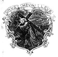 Coat of arms of Somascan Fathers, from a printed book of 18th cent.